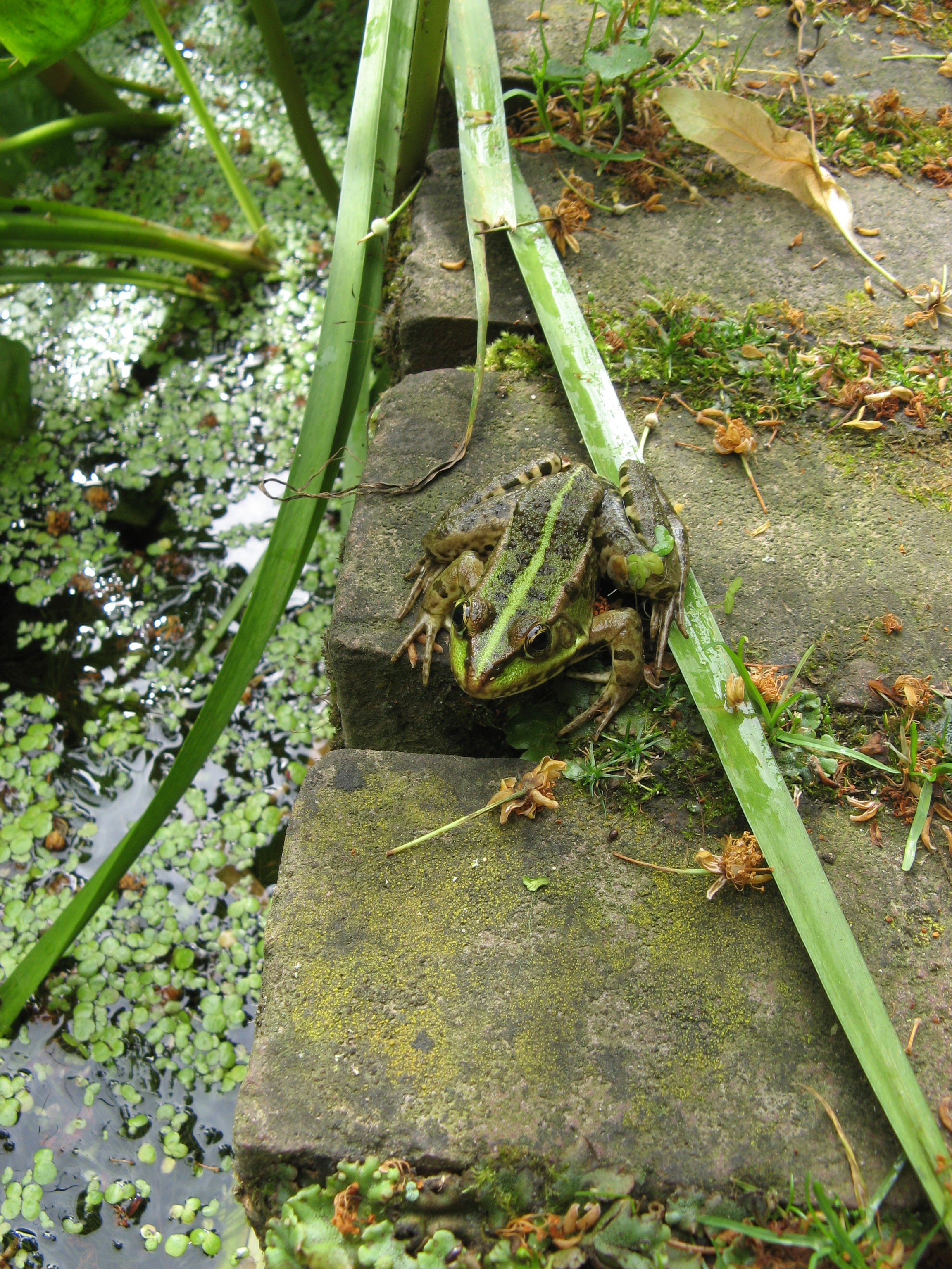 De Tuinen van Hoegaarden